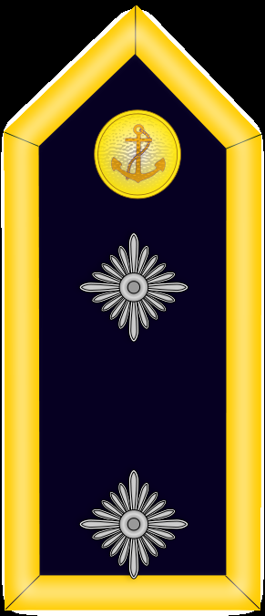 Military rank insignia, here shoulder strap of the «Oberbootsmann» (comparable to OR-7, NATO) of the German Kriegsmarine in WW II.